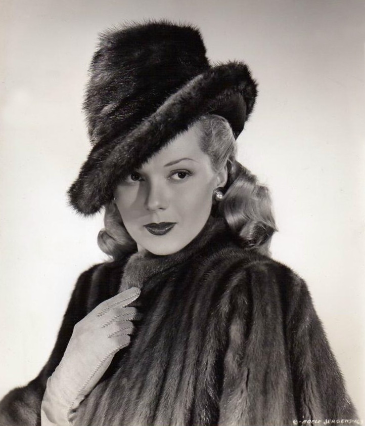 Publicity portrait of Adele Jergens for the film She Wouldn't Say Yes (1945)